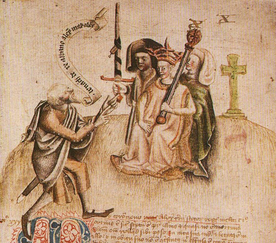 Coronation of King Alexander on Moot Hill, Scone. He is being greeted by the ollamh rígh Alban, the royal poet of Scotland, who is addressing him with the proclamation "Benach De Re Albanne" (= Beannachd Dé Rígh Albanaich - "God Bless the King of Scots"); the poet goes on to recite Alexander's genealogy. Malcolm II, Earl of Fife, depicted holding the sword standing beside King Alexander. (Albannaich is the plural form of Albannach, "Scot" or "Scotsman" and refers to the Scots collectively [as a nation]. The unique title of the Scots monarchs has long been "King of Scots" rather than "of Scotland" as opposed to the monarchs of England and other countries, who are titled "King [or Queen] of England" etc.. This style is ancient, and reflects the Gaelic tradition of the chief as "father" of his "clann" [lit. children]. As the monarch is the "Chief of Chiefs" he or she is the "father" or "mother" of the people, not merely the ruler of the land.)